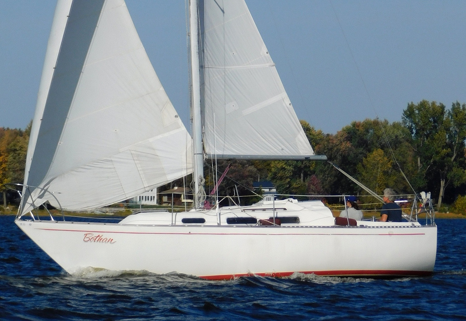 A Mirage 27 (Schmidt) sailboat named Bothan.